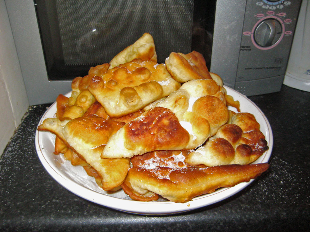 Carnival's ears from La Bañeza. Leonese region.